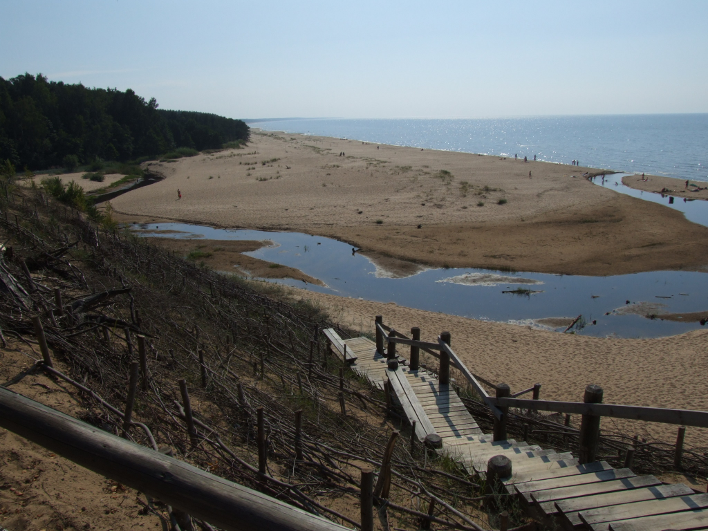 Delta of the river Incupe at saulkrasti, Latvia